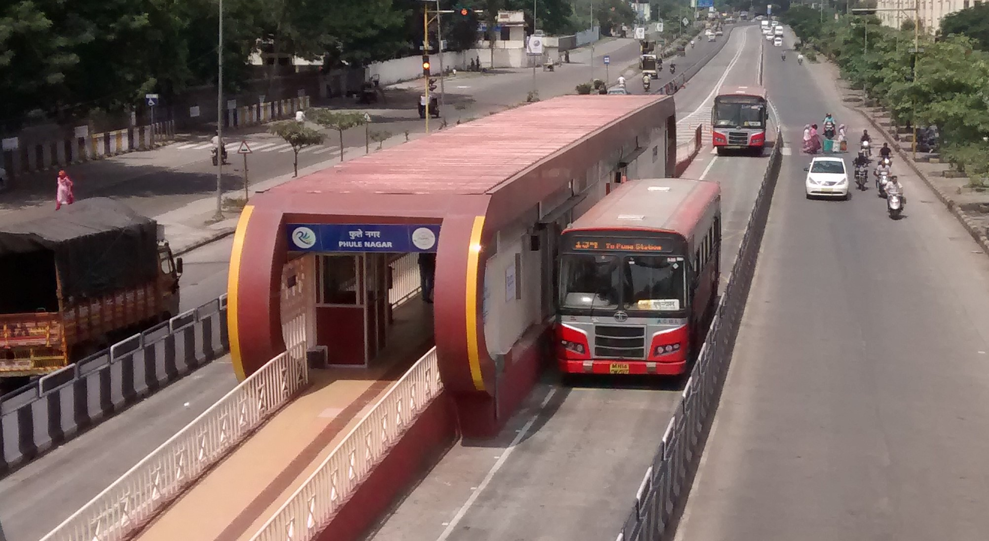 PMPML Rainbow BRTS Station at Phule Nagar